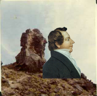 With likeness of Joseph Smith.